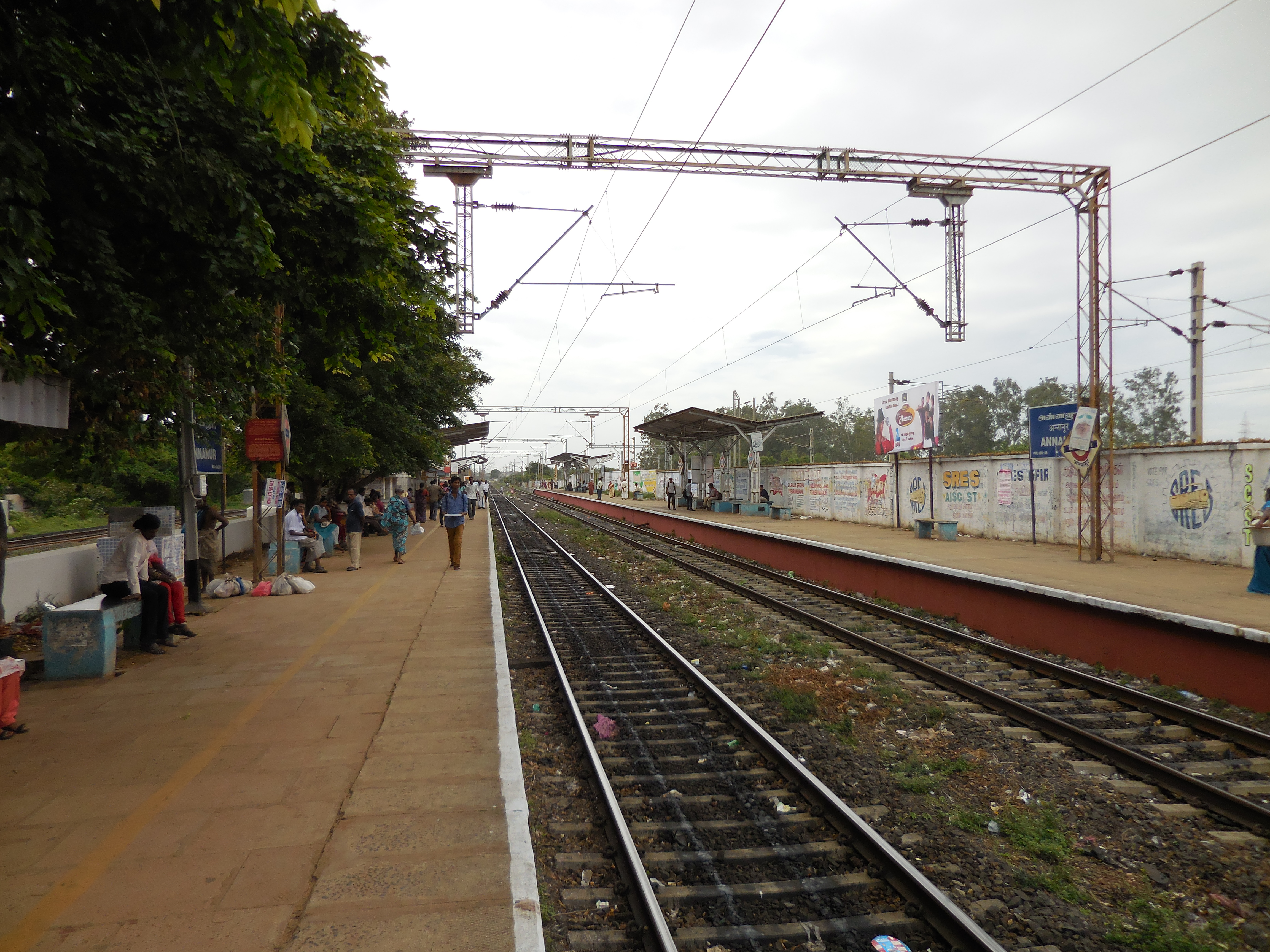 A view of Annanur Station, Chennai, towards east, taken on 14 July 2014 at forenoon.